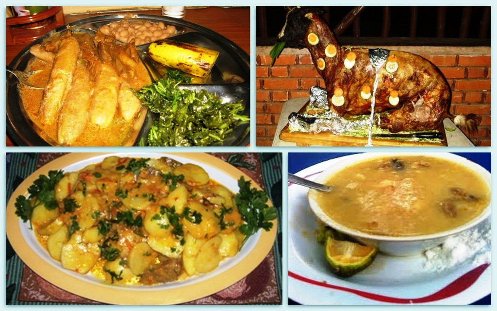 Various food dishes